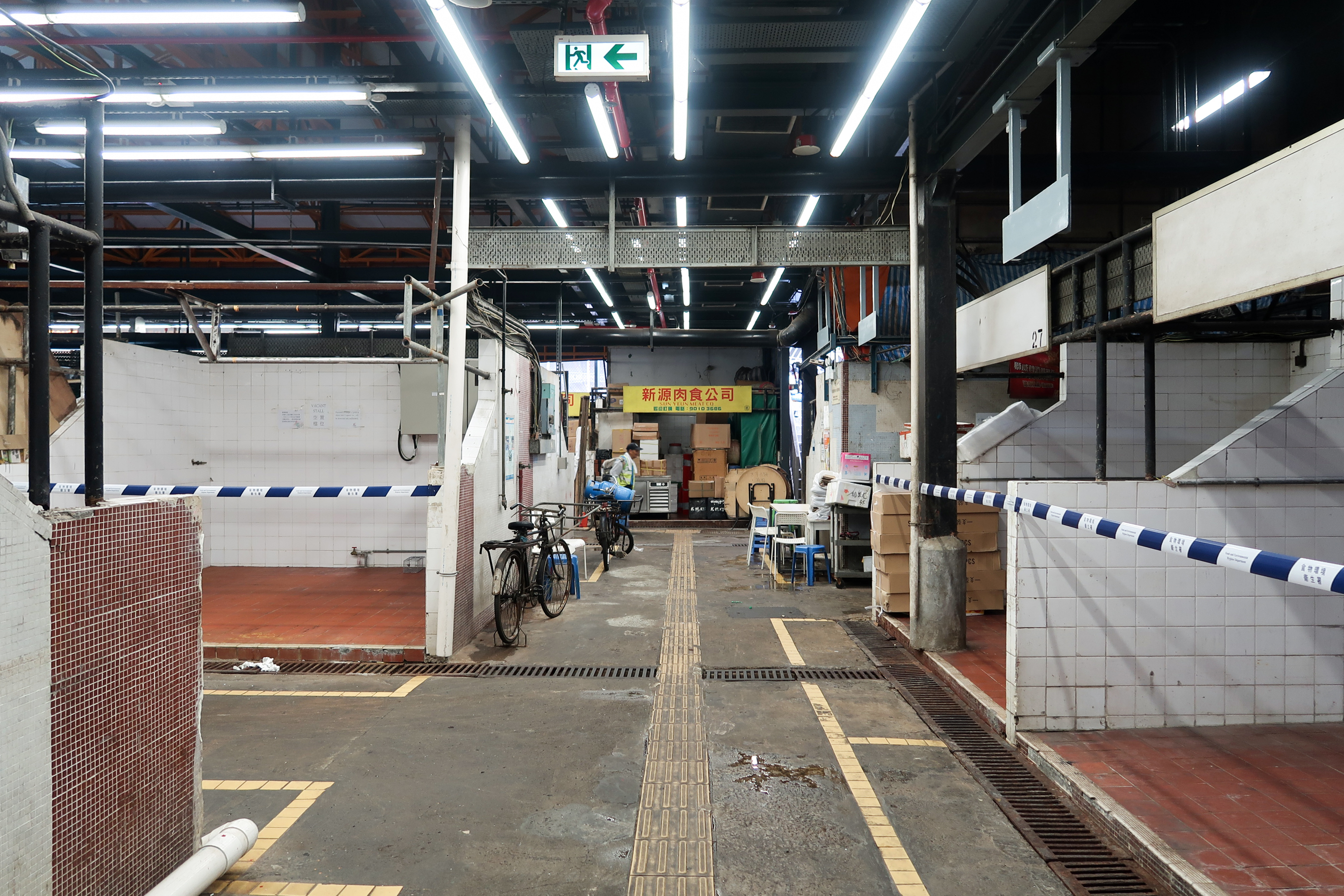 Haiphong Road Temporary Market